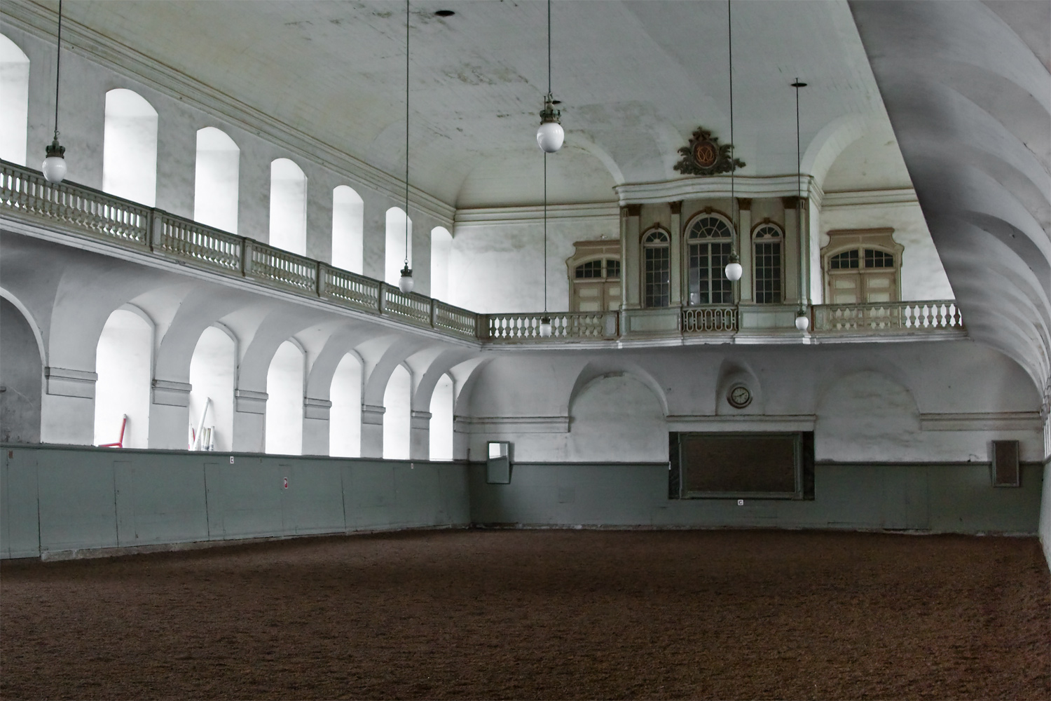 The riding school at Christiansborg Palace